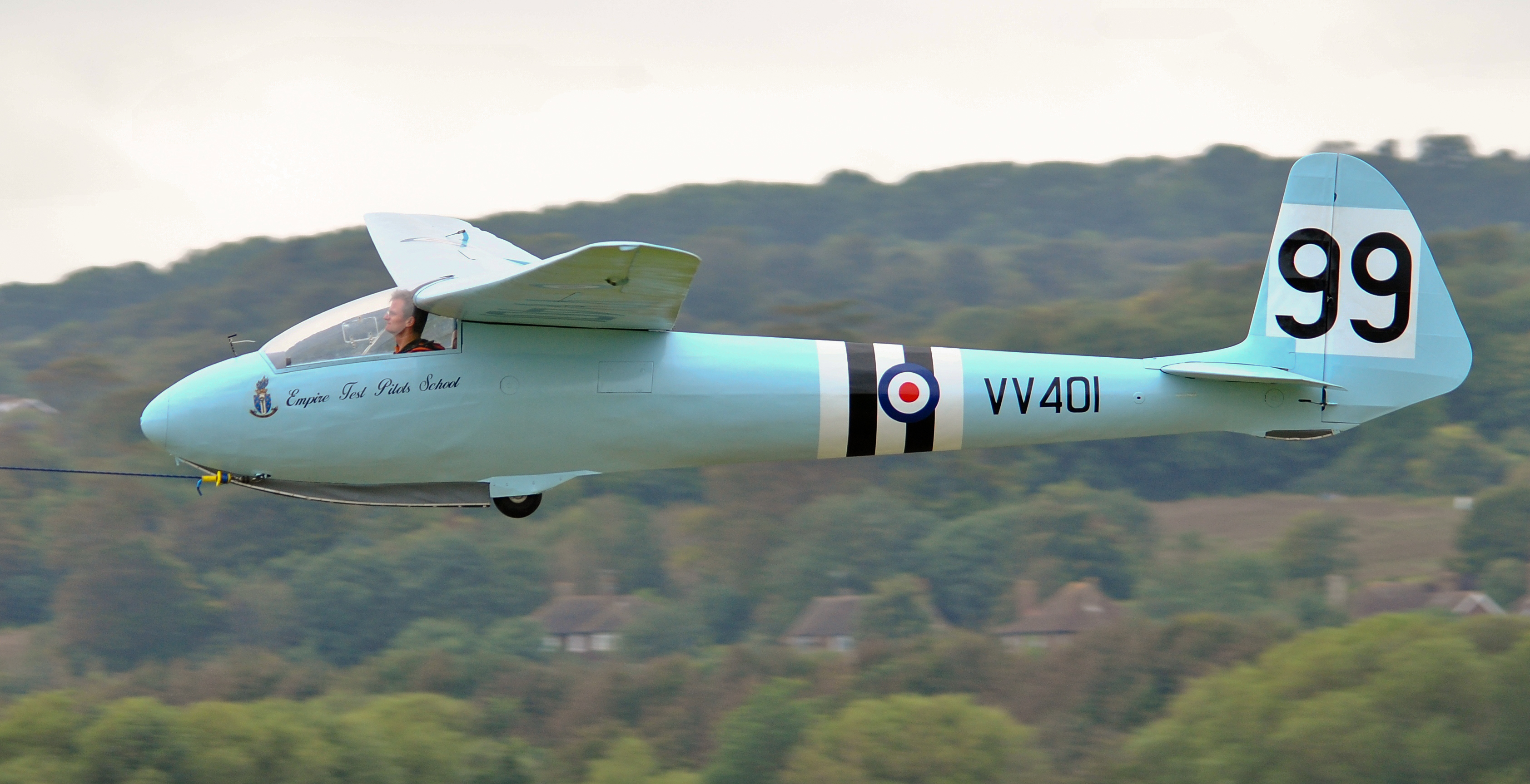 Olympia Vintage Glider, flown by Guy Westgate